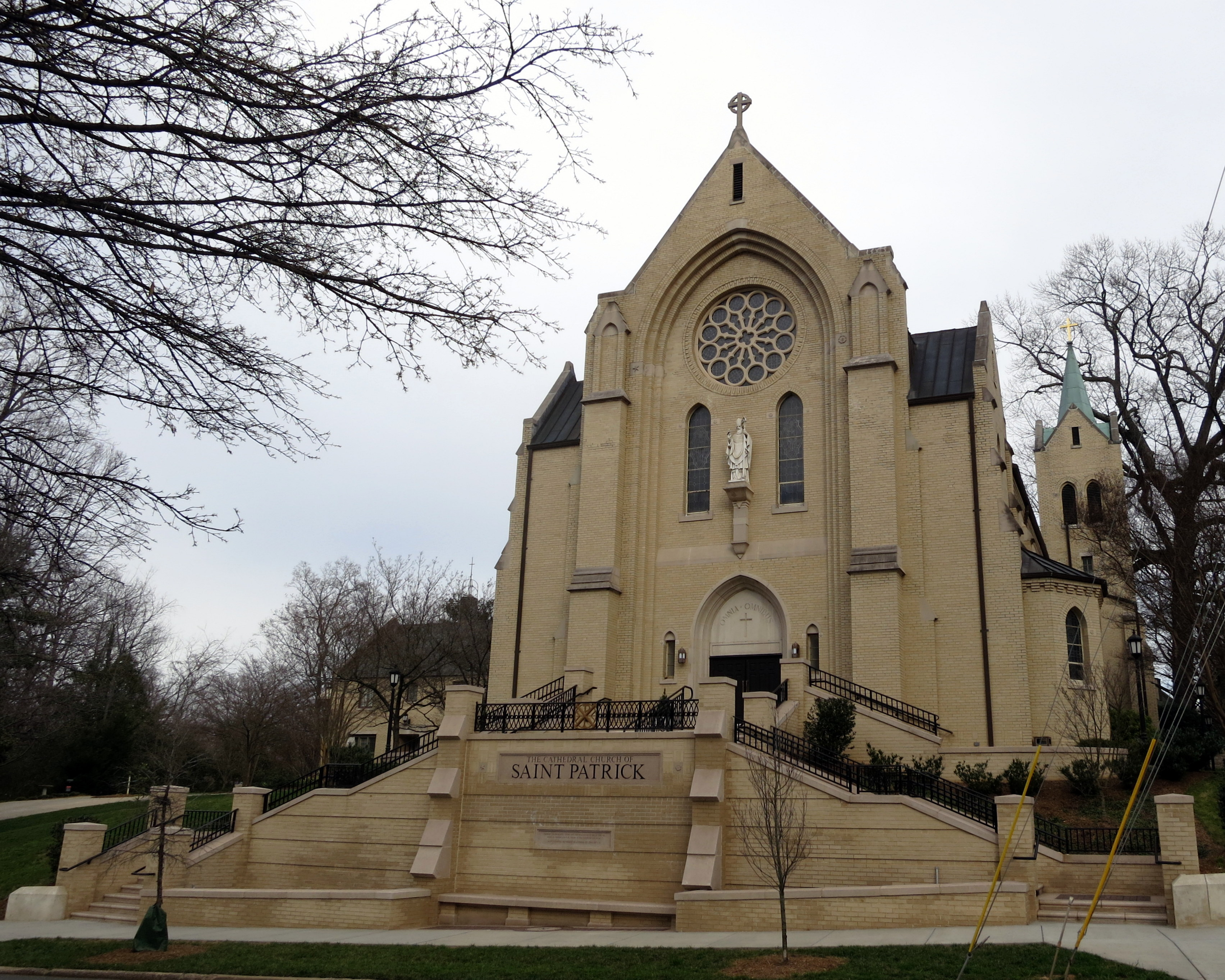 Cathedral Church of Saint Patrick (Charlotte, North Carolina) - exterior